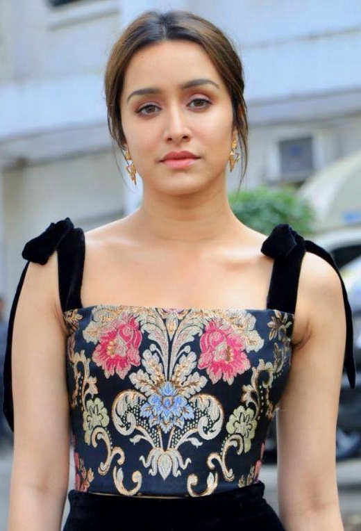 Shraddha Kapoor promoting Street Dancer 3D in 2020